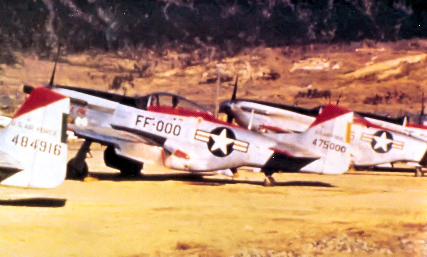 67th Fighter-Bomber Squadron F-51s South Korea 1950